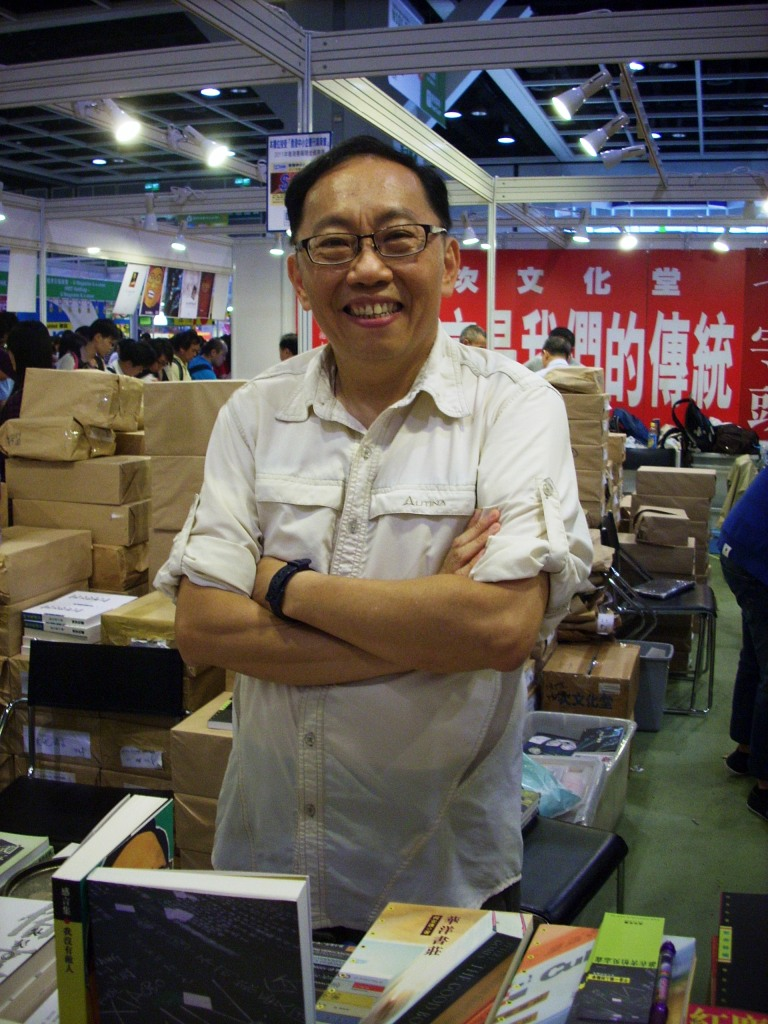 Ng in 2011 Hong Kong Book Fair